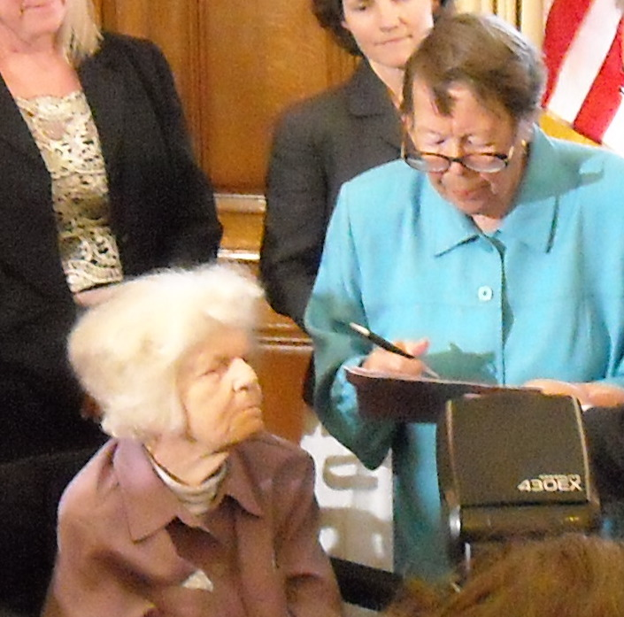 Marriage of Del Martin and Phyllis Lyon by San Francisco Mayor Gavin Newsom